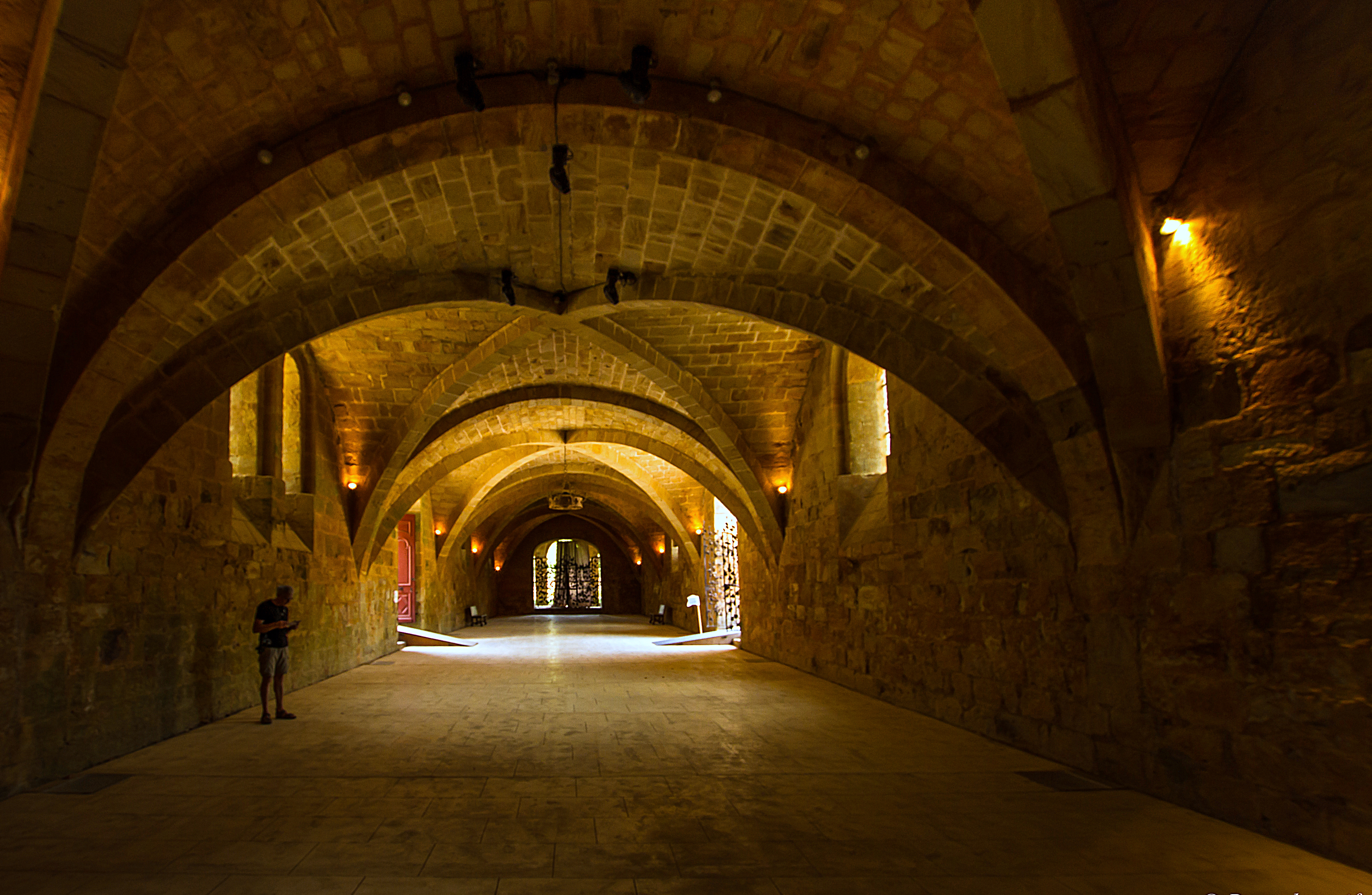 Le refectoire des convers